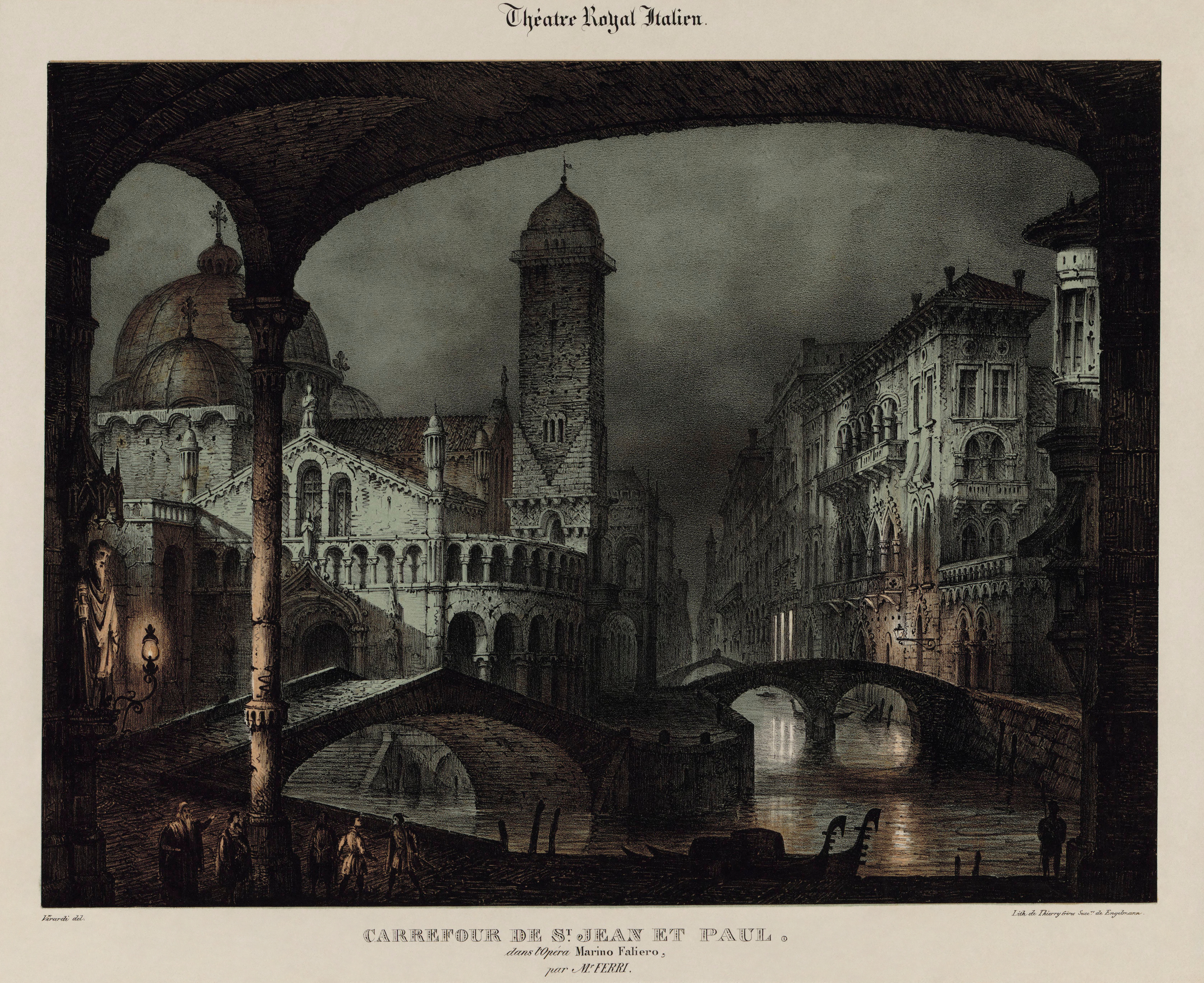 "Carrefour de St Jean et Paul. Dans l'Opéra Marino Faliero" - Picture of Act II, from the prémiere, at the Théâtre-Italien, of Gaetano Donizetti's opera Marino Faliero, his first work to première in France. 35.5 x 43.3 cm, Lithograph in color (though this does predate proper chromolithography by two years, which likely explains the fairly simple colours.) Lithograph created by Thierry frères ("Succrs de Engelmann"). To quickly note: This was pretty much a standard dirt, spot, and hair removal, except the text at the bottom was tilted slightly off from the rest of the image, and was thus straightened out without rotating the rest of the image, which, while all the edges are a bit off true, did already have very straight verticals in the art itself.